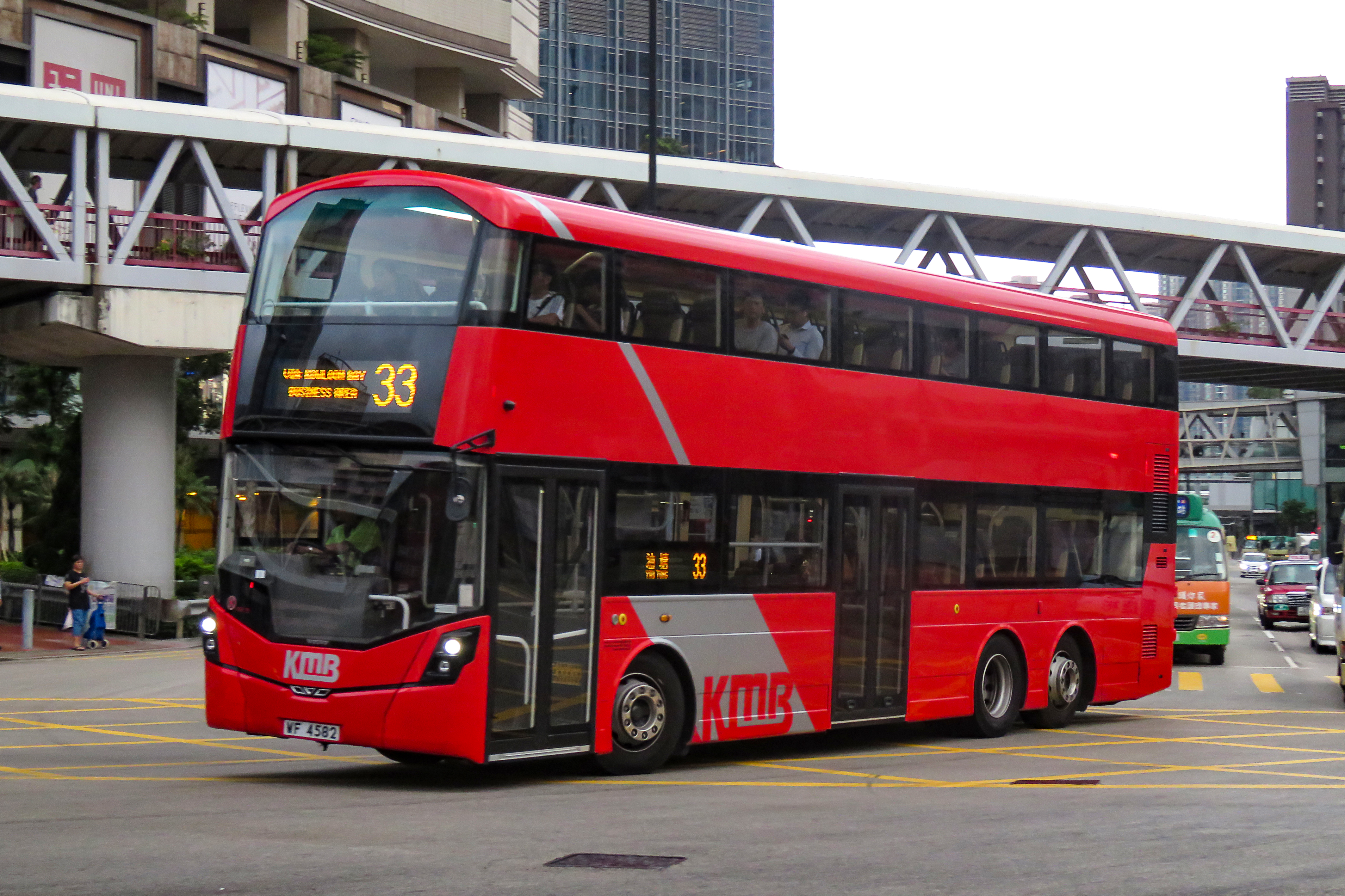 Finally seen this new route.